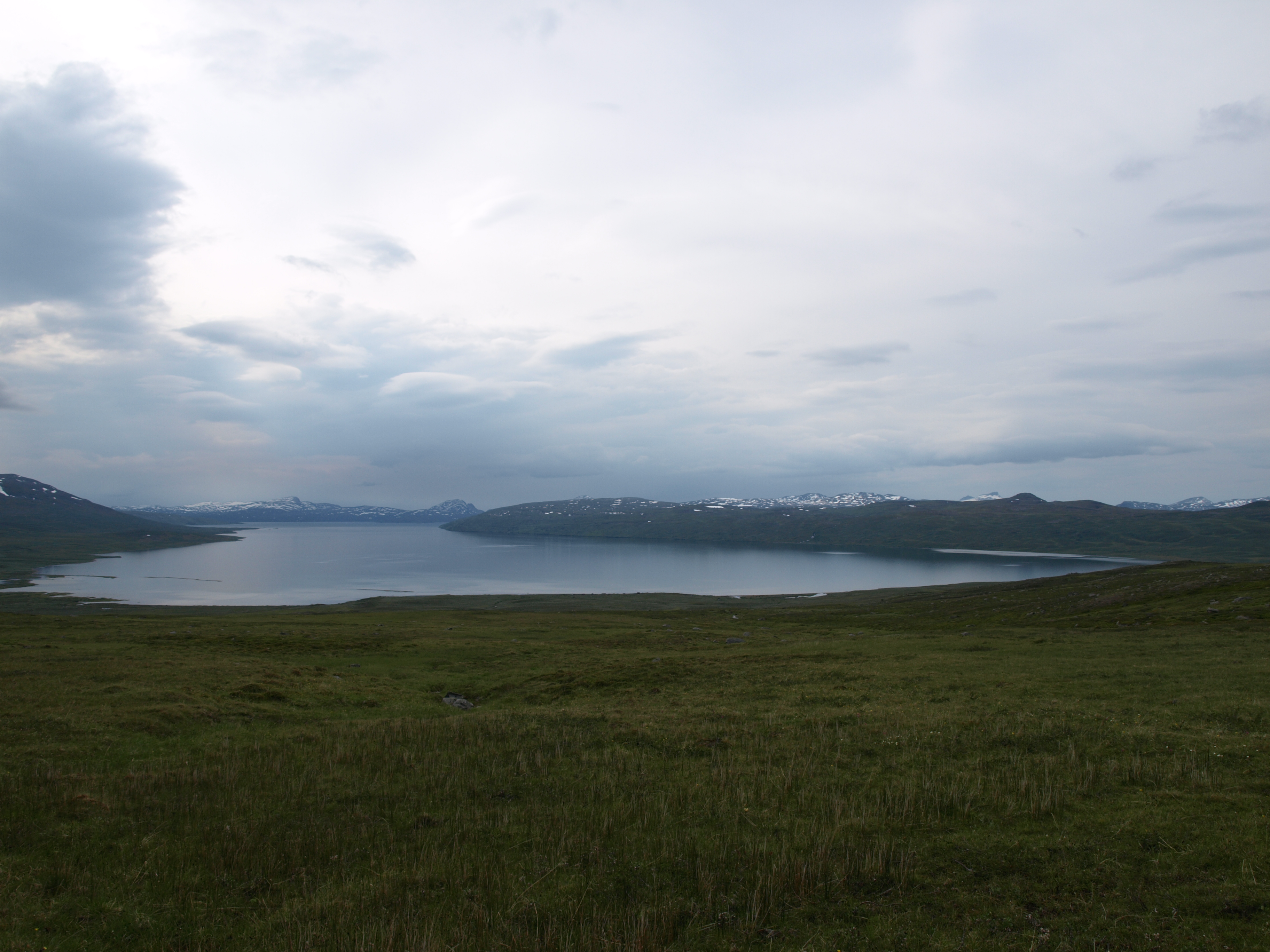 The Swedish lake Vastenjaure. Photograph taken from the east of the lake.